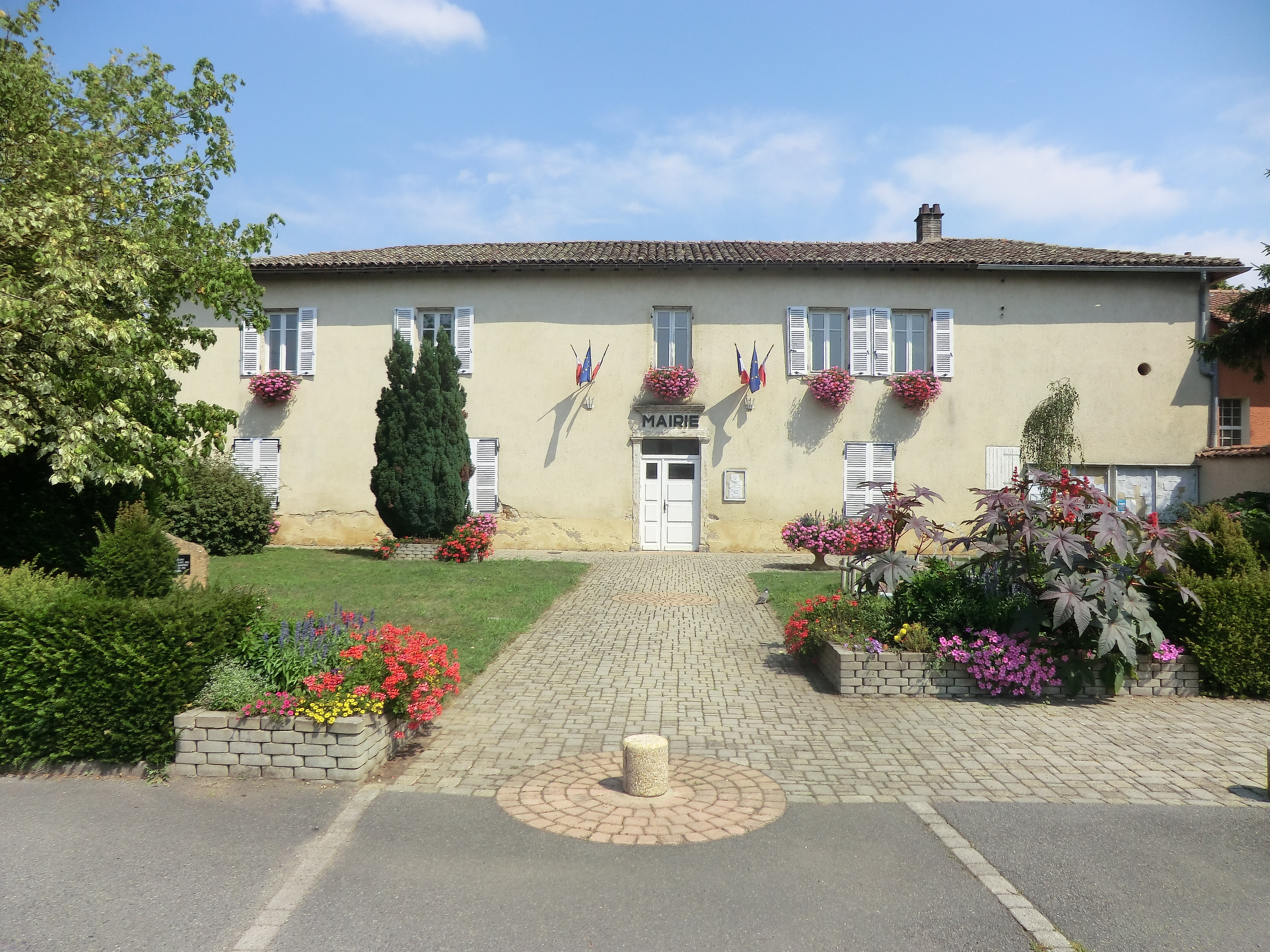 Image of Chaleins.